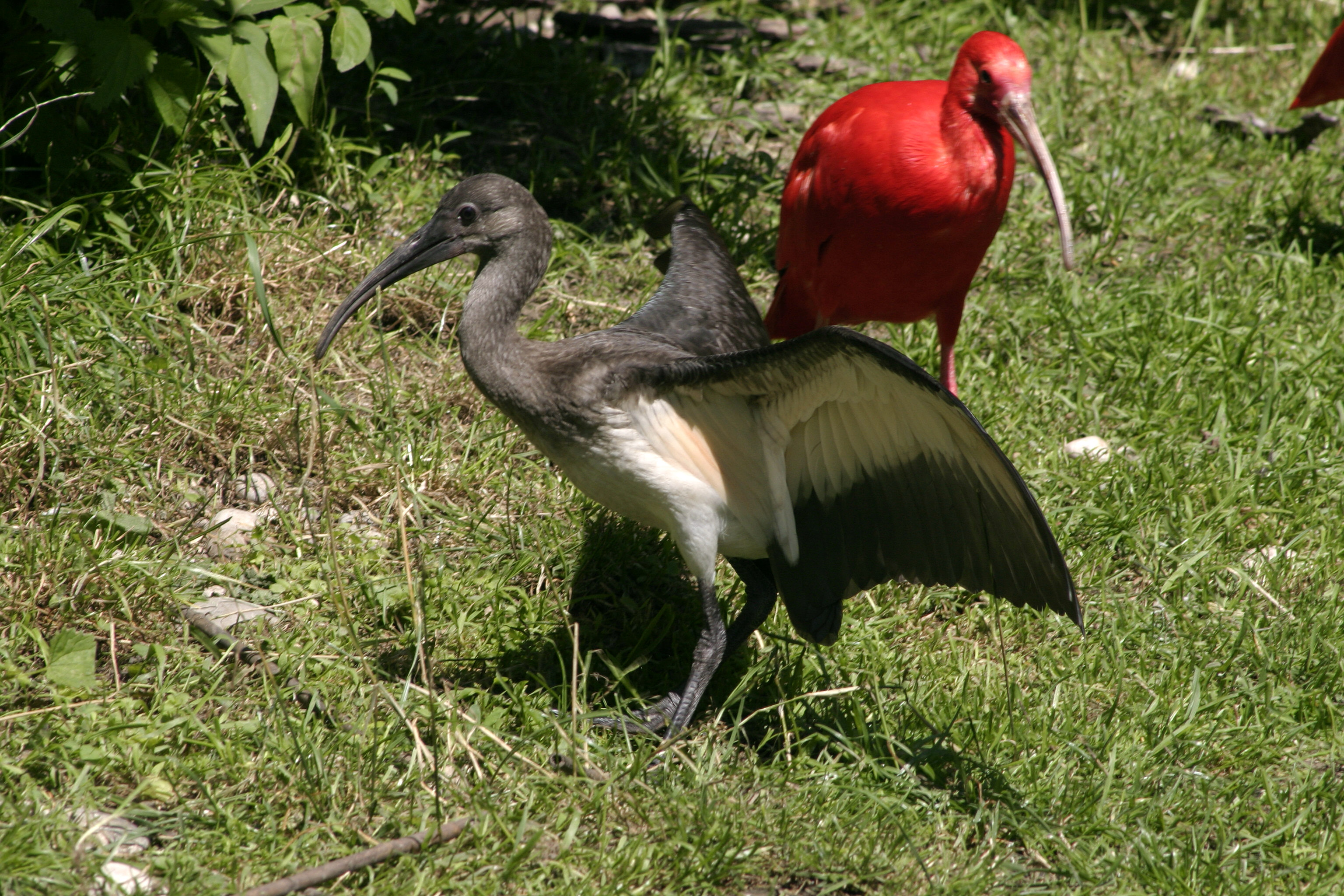 Scarlet Ibis with young bird